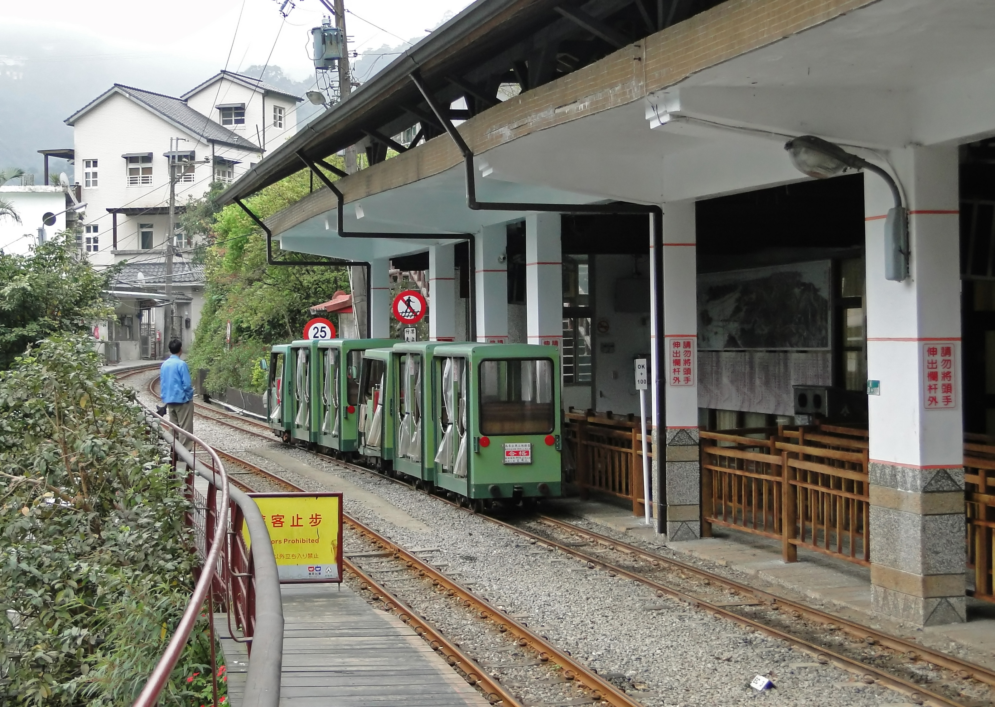 Wulai Scenic Train, Taiwan